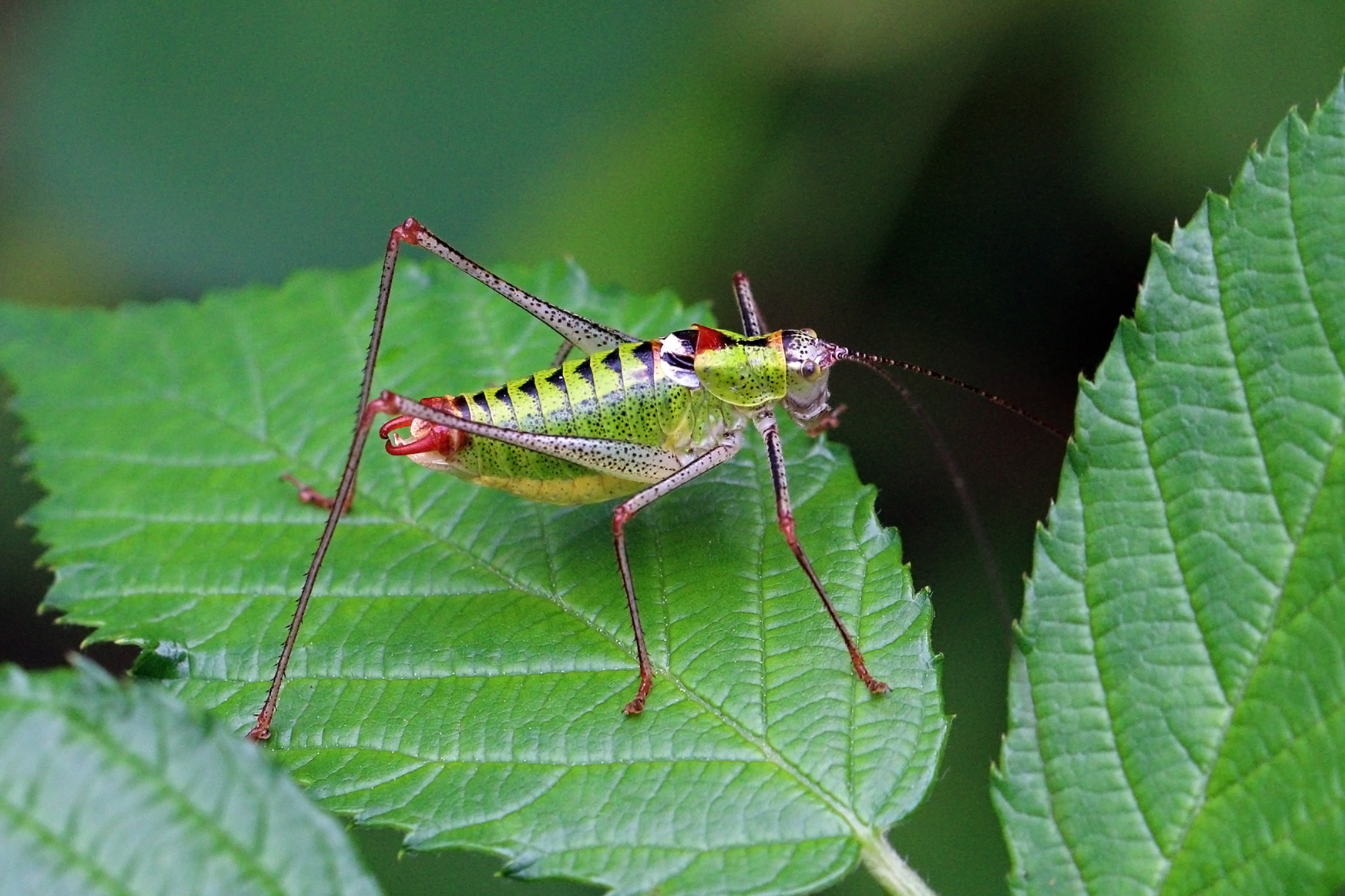 Bellied bright bush-cricket (Poecilimon thoracicus) male, Bulgaria